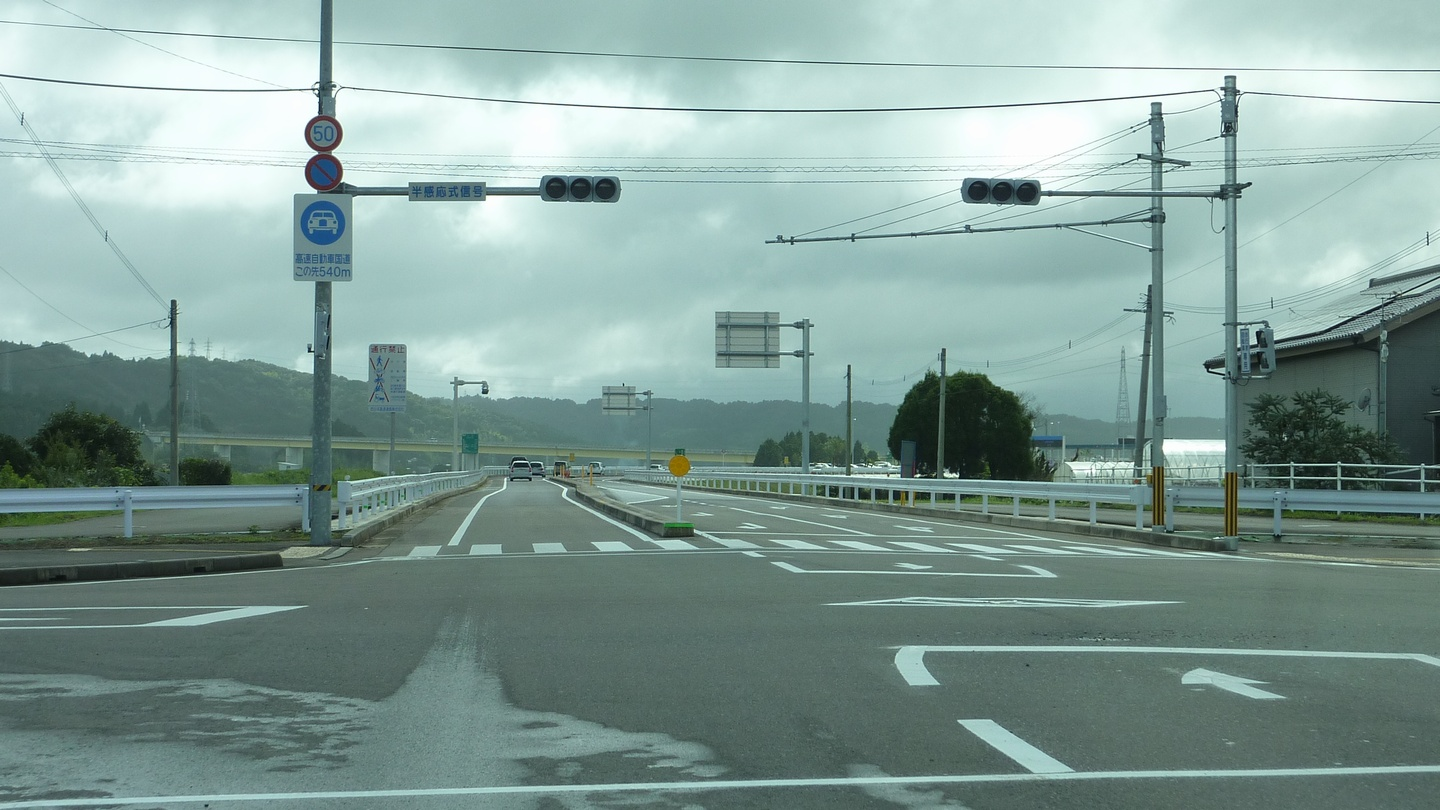 Miyazaki Prefectural Road No.308 Takanabe Interchange Line (Takanabe Town, Miyazaki Prefecture, Japan)